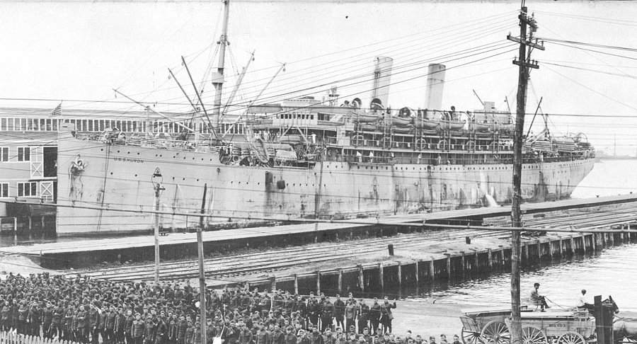 USS Huron (ID-1408) in port at Newport News, Virginia, 11 July 1919.